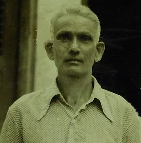 Raja Gopal Achary .S Owner "Muthu Cheppu Pattarai" Kalakkad